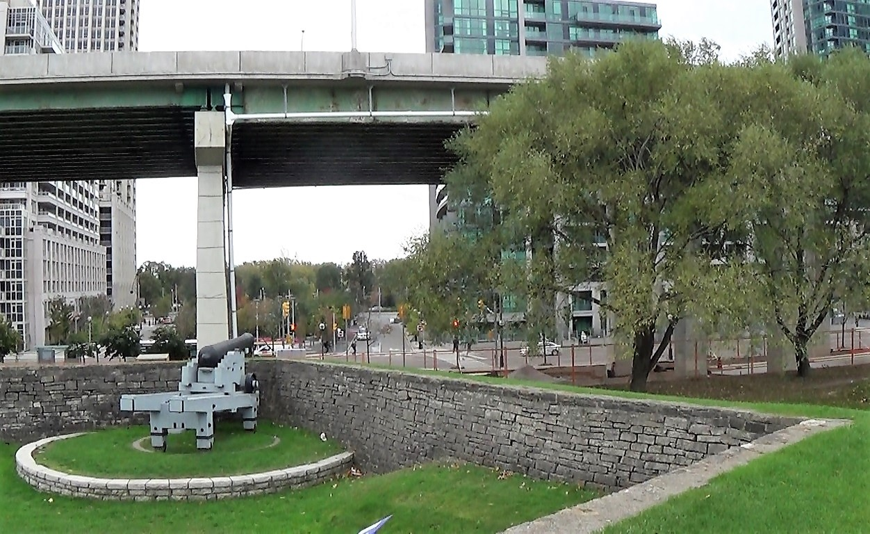 Cannon emplacement at Fort York, originally located on the waterfront to defend against attacking American ships, now located inland due to infilling into the lake